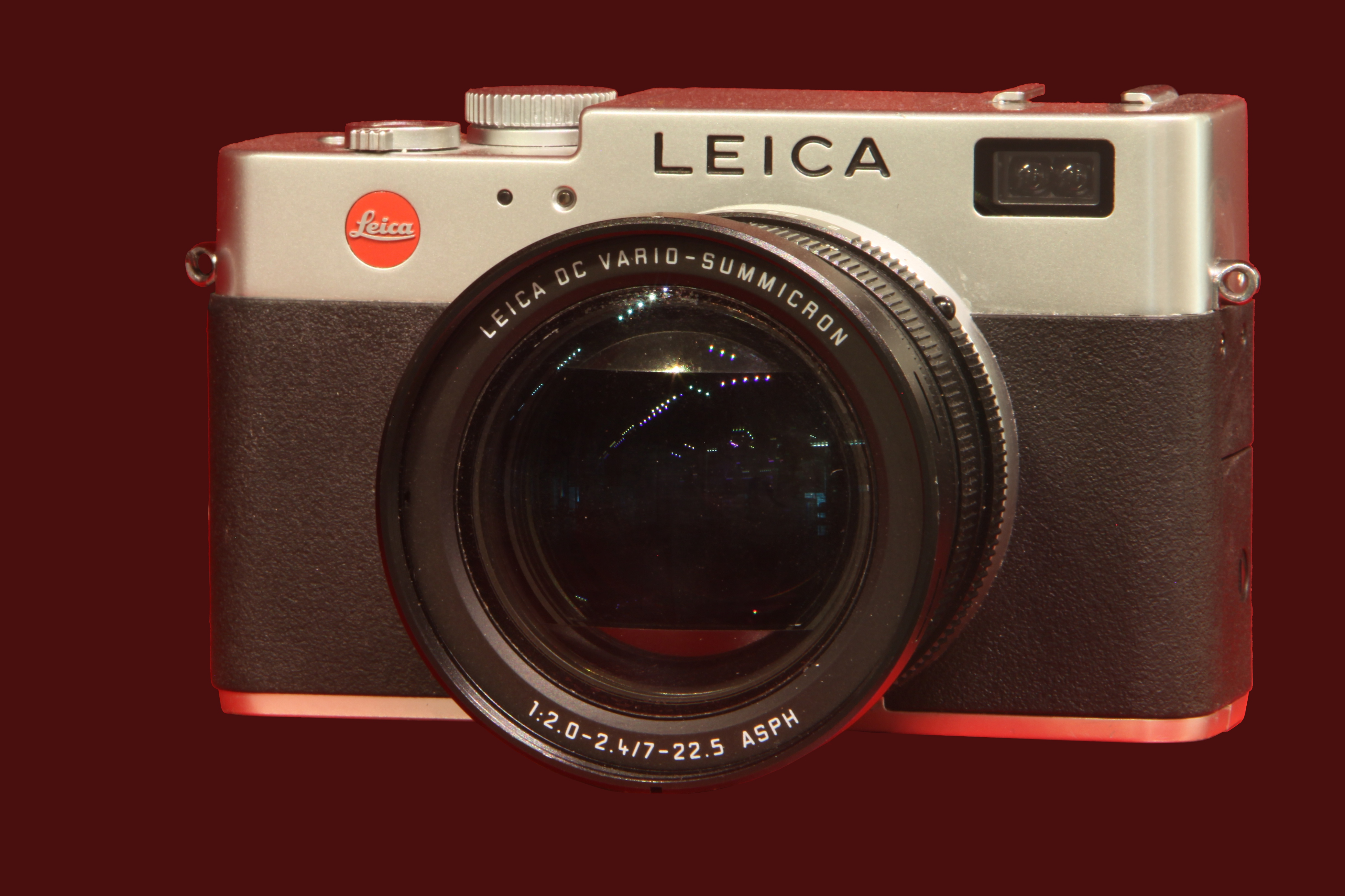 Leica Digilux 2